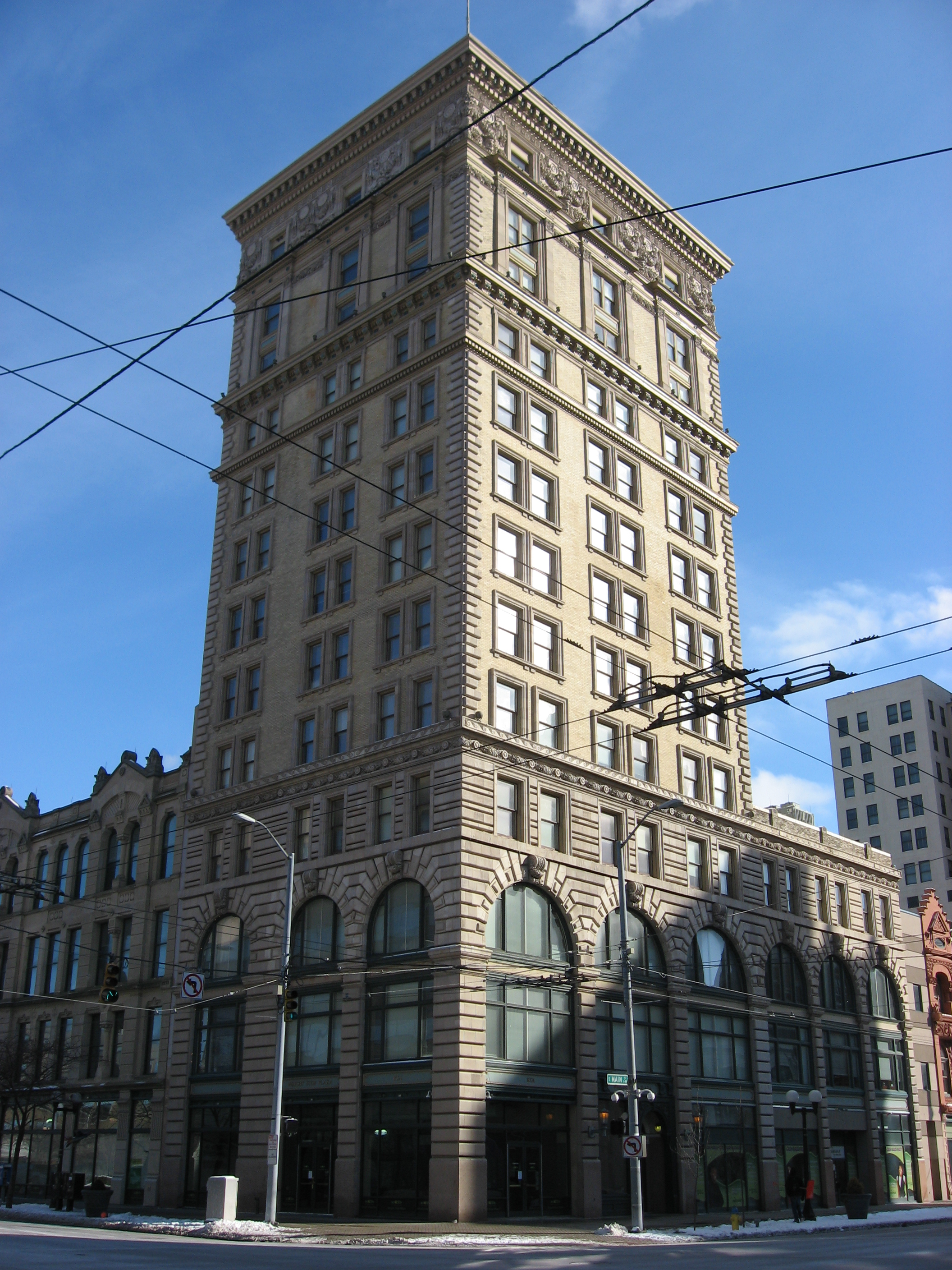 Front of the Conover Building, located at 4 S. Main Street in downtown Dayton, Ohio, United States. Built in 1900, it is listed on the National Register of Historic Places.